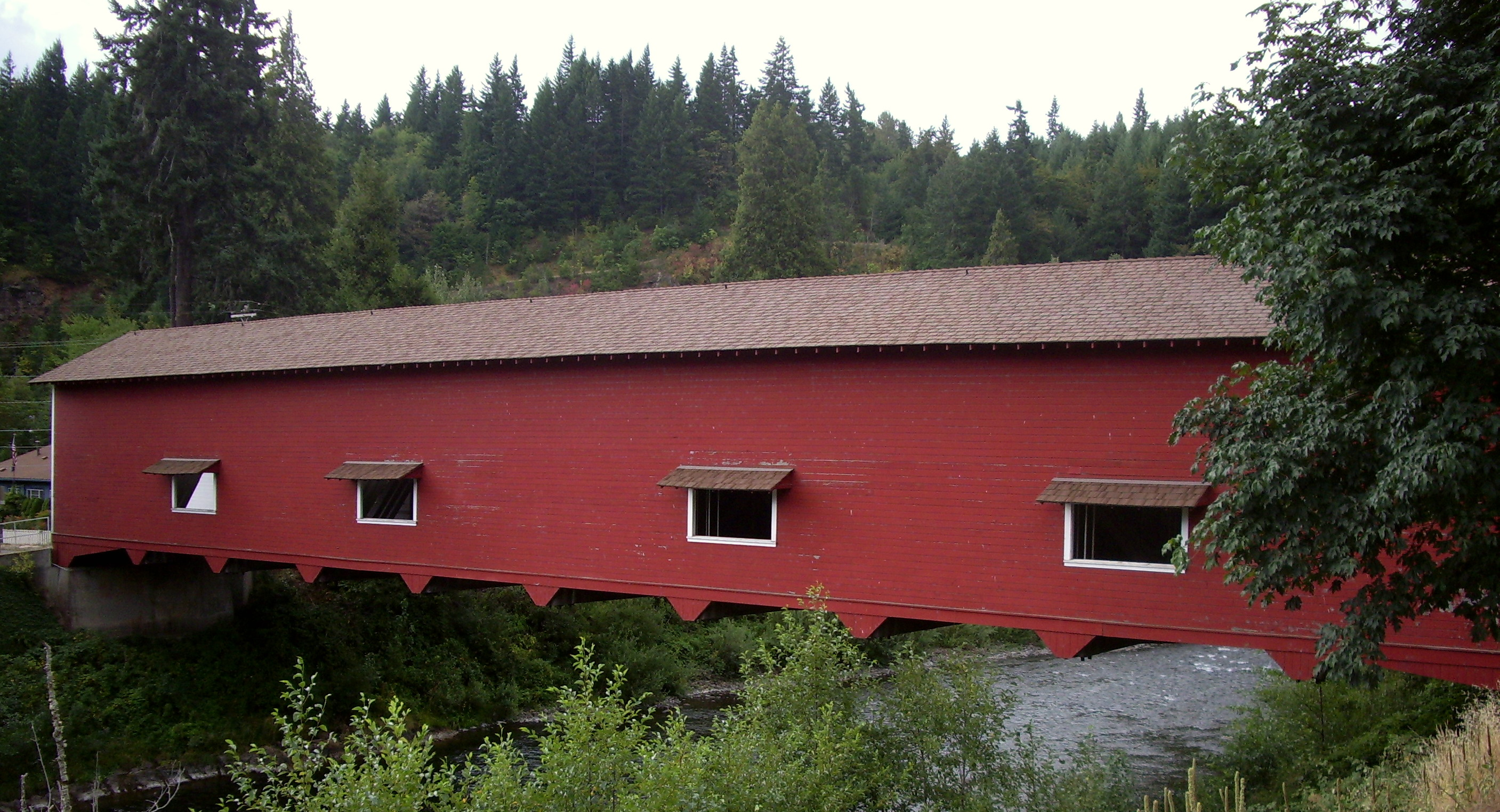 Office Bridge in Westfir, Oregon over the North Fork Middle Fork Willamette River